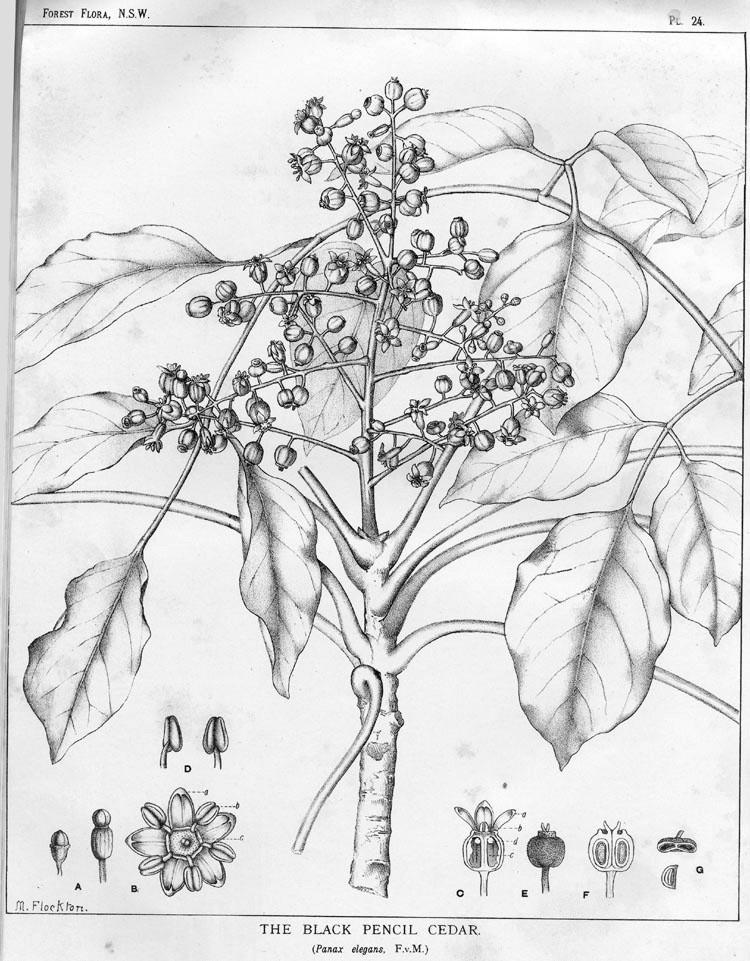 Black Pencil Cedar, Panax elegans F.v.M., Plate 24 from Forest Flora of New South Wales by by Joseph Henry Maiden (1859–1925)